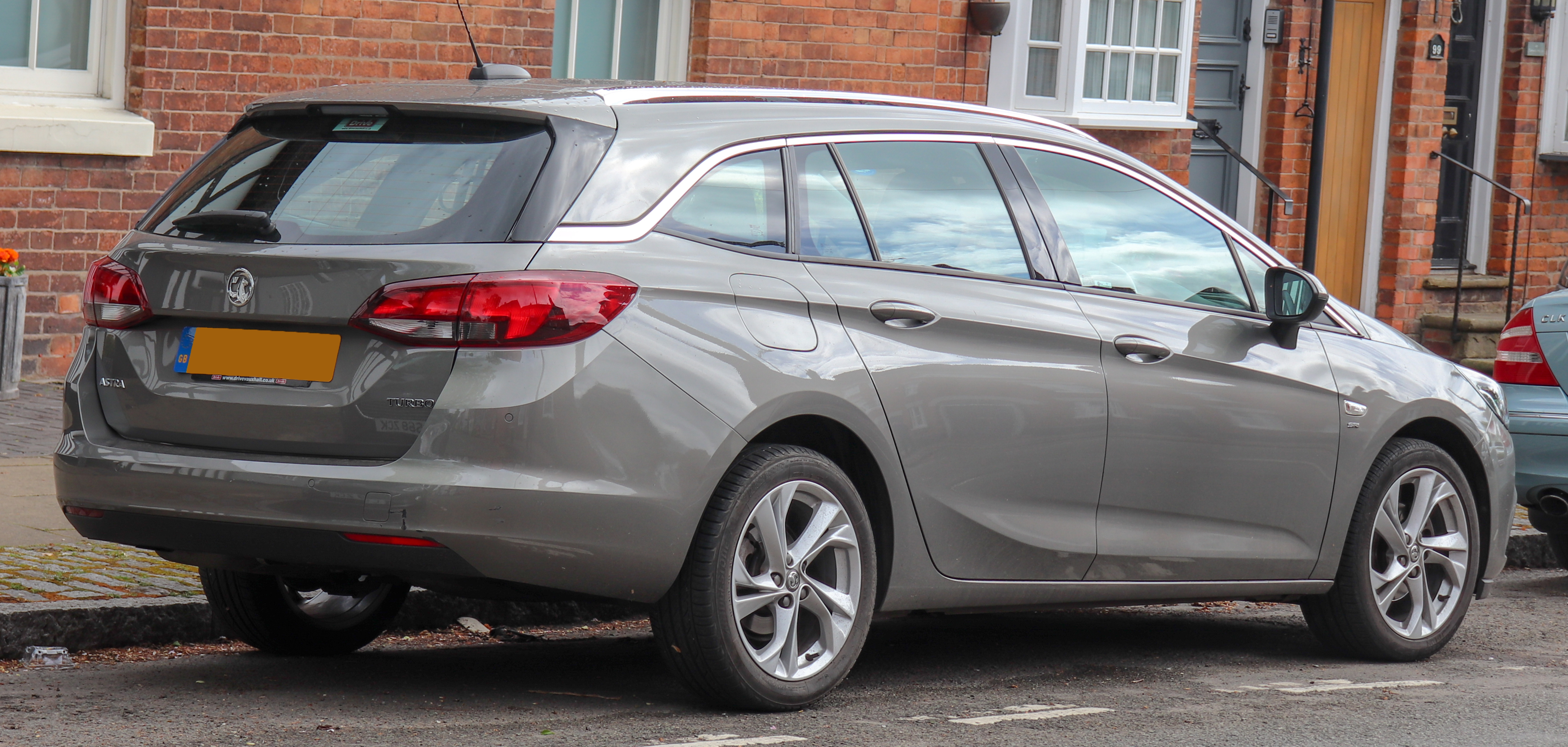 2017 Vauxhall Astra SRi Estate 1.4 Rear Taken in Warwick